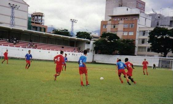 Raul Sertã Stadium of Nova Friburgo Futebol Clube, Nova Friburgo, Rio de Janeiro, Brazil